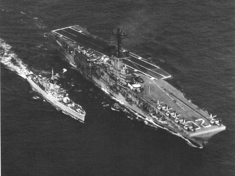 The U.S. Navy aircraft carrier USS Bennington (CVS-20) refueling the Royal New Zealand Navy frigate HMNZS Otago (F111). Bennington, with assigned Carrier Anti-Submarine Air Group 59 (CVSG-59), was deployed to the Western Pacific and Vietnam from 30 April to 9 November 1968.